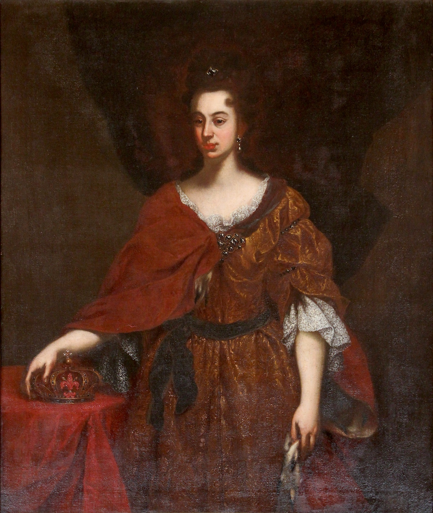 The portrait of Anna Maria Franziska of Saxe-Lauenburg (1672-1741), Gian Gastone de' Medici's wife, Grand Duke of Tuscany, is part of the so-called "serie aulica" (or "of the most serene princes"), a collection of portraits of the most important members of the House of Medici. The work and a matching portrait of her husband entered together into the Uffizi Gallery on 29 November 1726. The artist is not known, but the portrait planning and modus operandi have been recognized strictly close to that one of Violante Beatrice of Bavaria, sister-in-law to Gian Gastone, for which the name of the painter Giovanni Gaetano Gabbiani is documented. It seems that we should attribute him all the last portraits of the "serie aulica", similar in execution. The source for the portrait of Grand Duchess Maria Anna Franziska is not known, since she refused to come to Florence after her wedding and stayed in Bohemia for the rest of her life. Probably a miniature or a small portrait that depicted her still young, since in 1726 the Grand Duchess was fifty-four already.